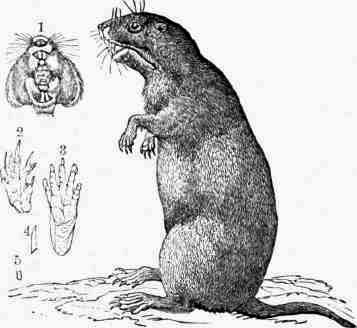 Woodcut/drawing of a California gopher (Thomomys bulbivorus). 1. Front view of mouth, teeth, and jaws. 2. Hind paw. 3. Fore paw. 4, 5. Nails of fore and hind feet.